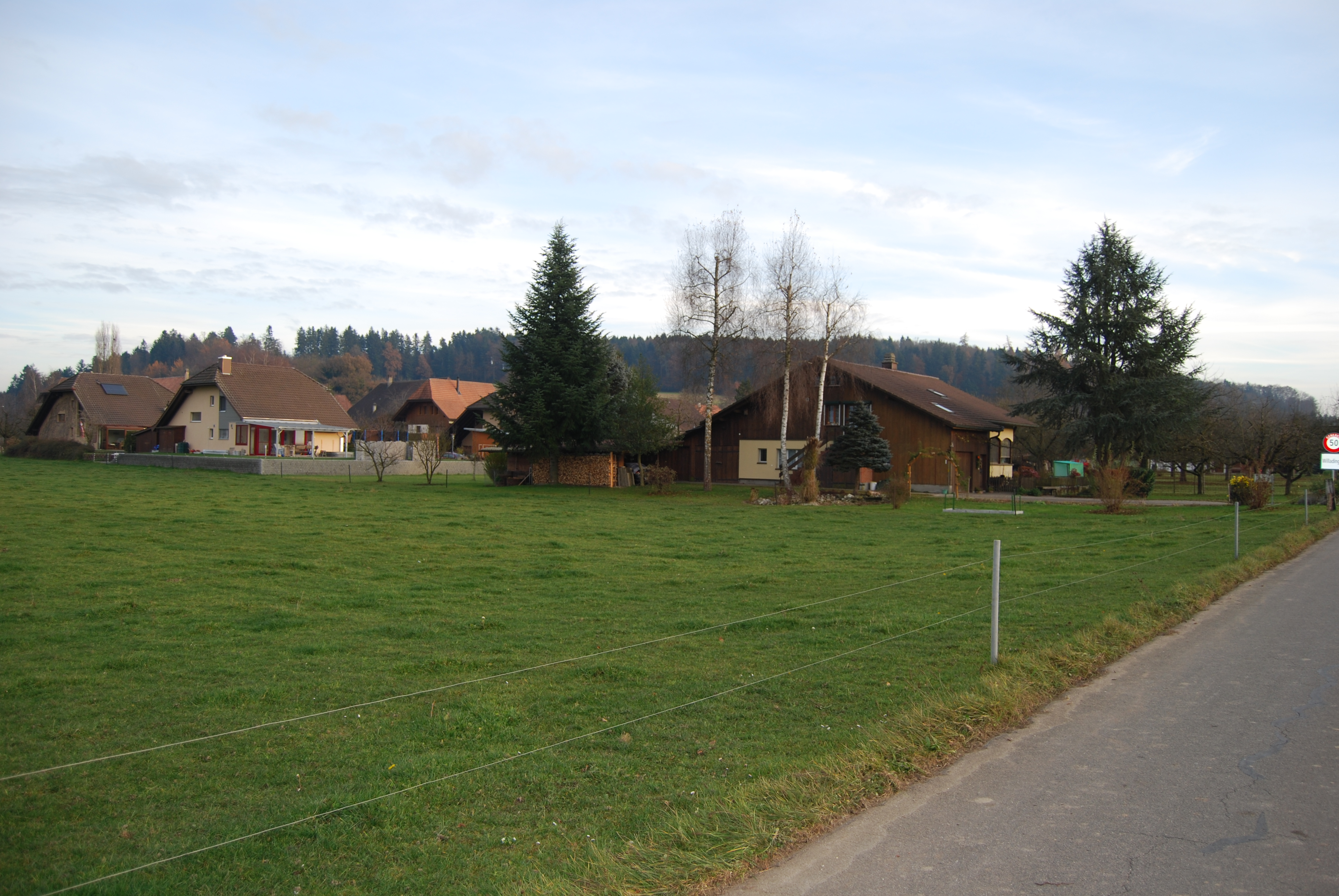 Willadingen, canton of Bern, SwitzerlandEsperanto: Willadingen, Kantono Berno, Svislando